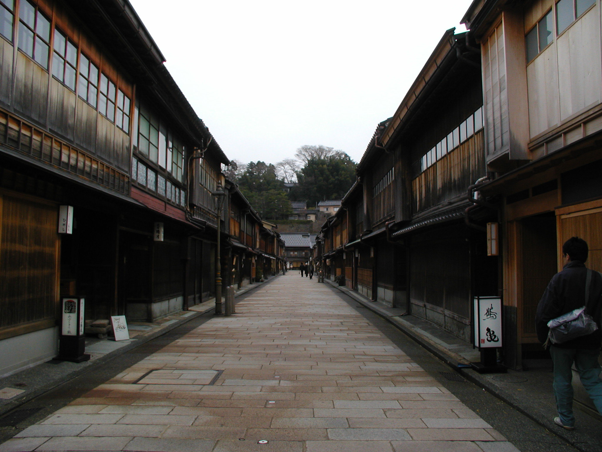 The Higashi-chayagai (東茶屋街), or "Eastern Teahouse District", a still-functioning geisha district in Kanazawa.